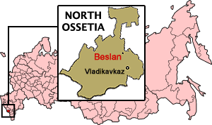 Modification of Image:RussiaNorthOssetia.Highlight.png and Image:Beslan-location.png. 画像:RussiaNorthOssetia-Highlight.png Grafika:Bieslan.png